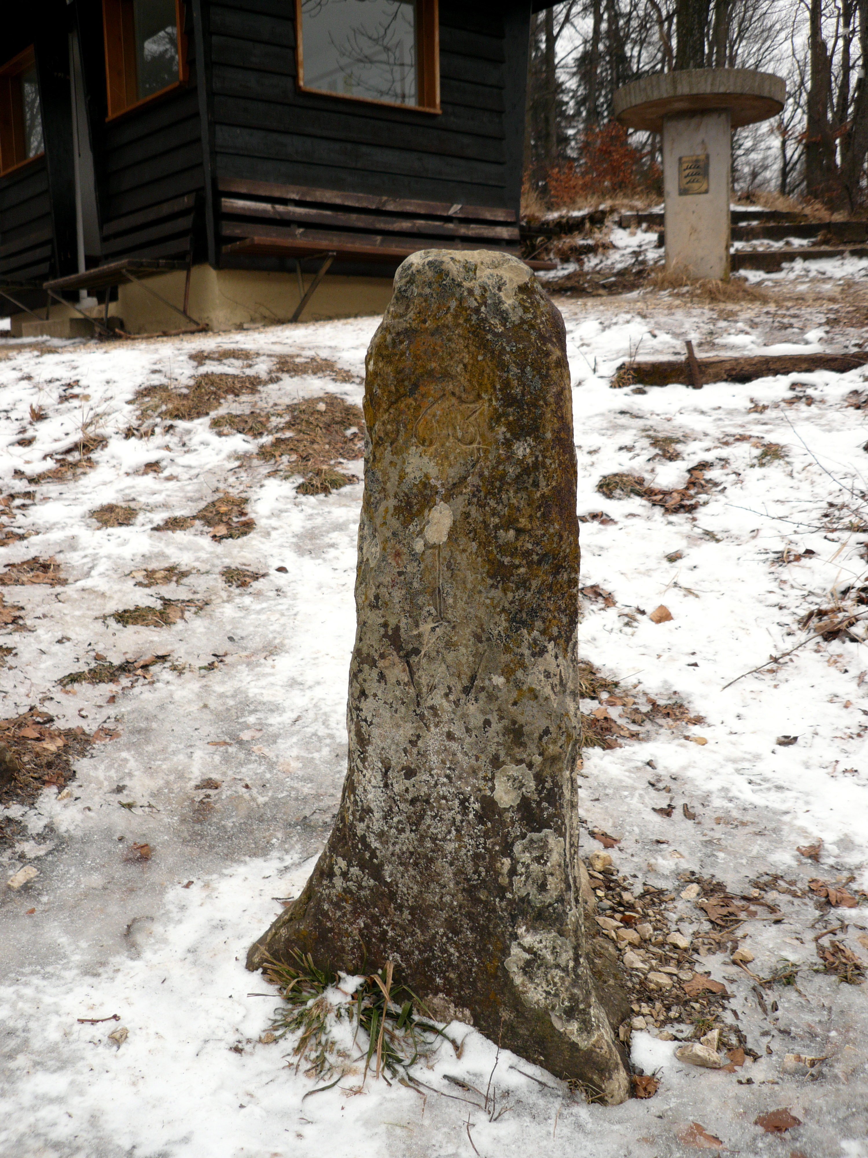 The old triangular border stone on the summit of Dreifuerstenstein, Schwaebische Alb